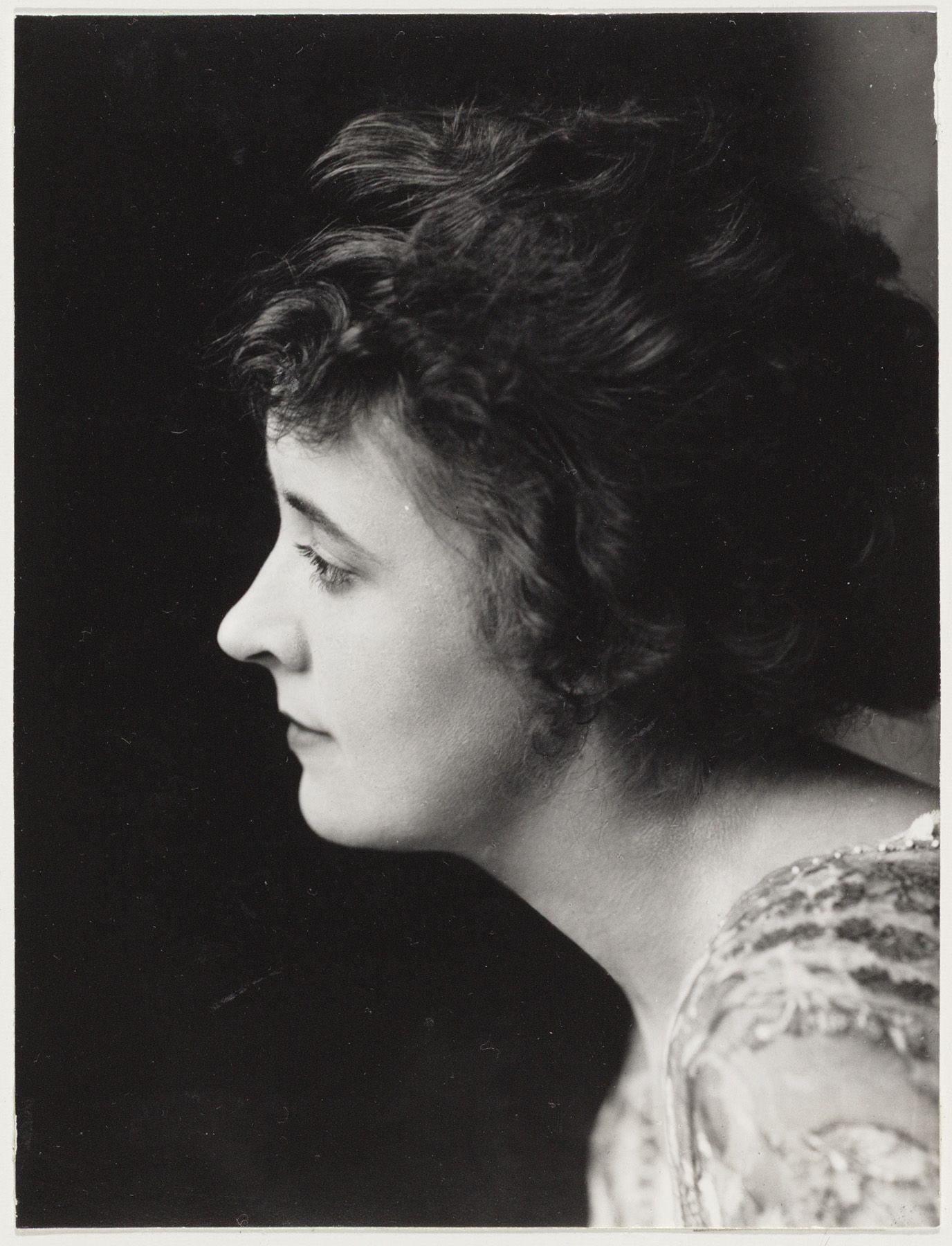 Photograph of Dutch/English actress Margie Morris by Jacob Merkelbach (1877-1942)